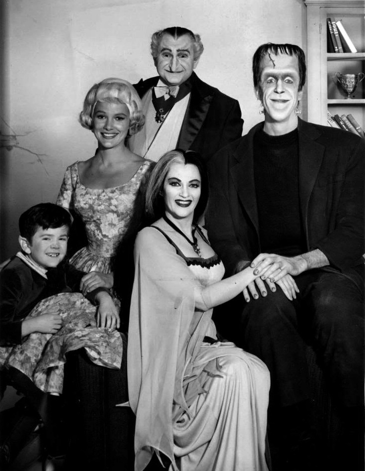 Publicity photo of the cast of the television program The Munsters. Seated, from left: Butch Patrick (Eddie), Yvonne DeCarlo (Lilly), Fred Gwynne (Herman). Standing: Beverly Owen (Marilyn) and Al Lewis (Grandpa).